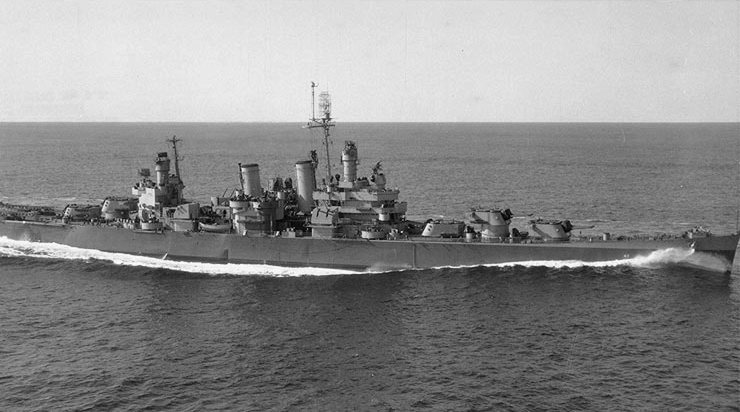 USS Savannah (CL-42) photographed from a blimp of squadron ZP-11, while underway off the New England coast on 30 October 1944.